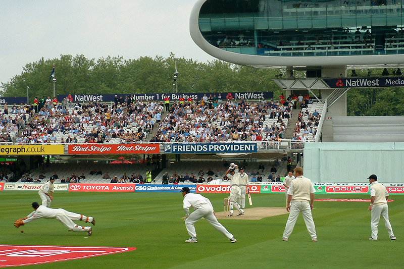 England's Steve Harmison bowling against New Zealand at Lord's. May 20, 2004